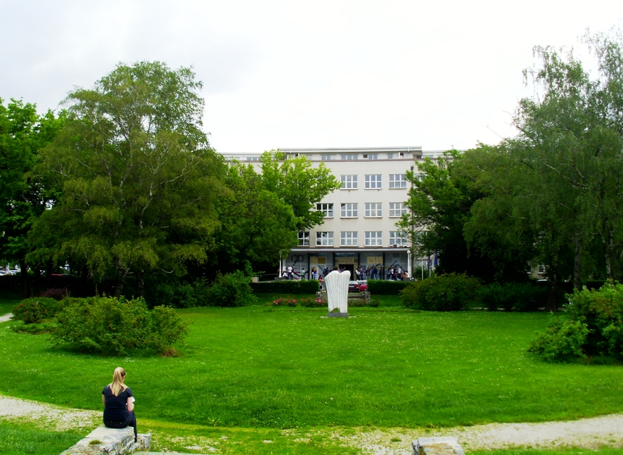 Garden, view to main enterance.